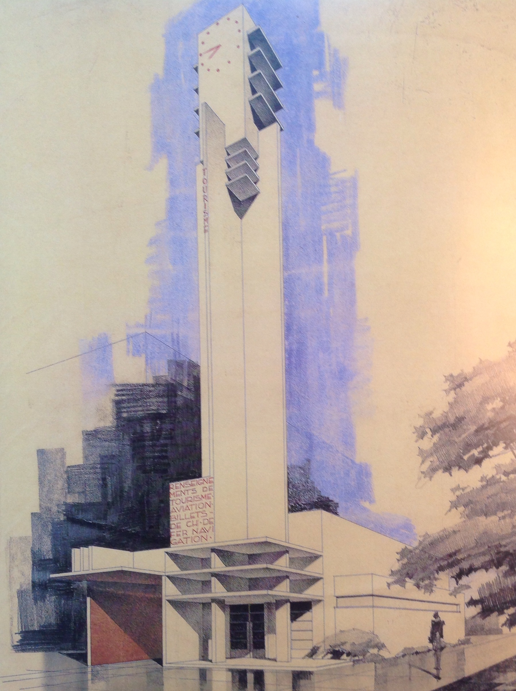 Tourism Pavilion at the 1925 International Exposition of Decorative Arts in Paris; drawing by architect Robert Mallet-Stevens (1886-1945)